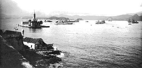 Ilha Fiscal on Guanabara Bay, Rio de Janeiro, Brazil.